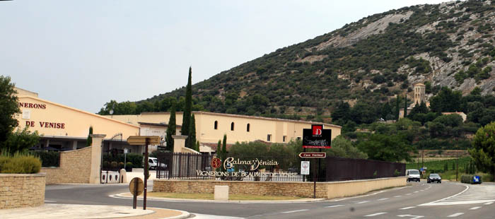 Wine company in the town of Beaumes-de-Venise in Vaucluse, France